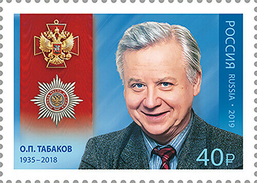 Oleg Pavlovich Tabakov, Actor